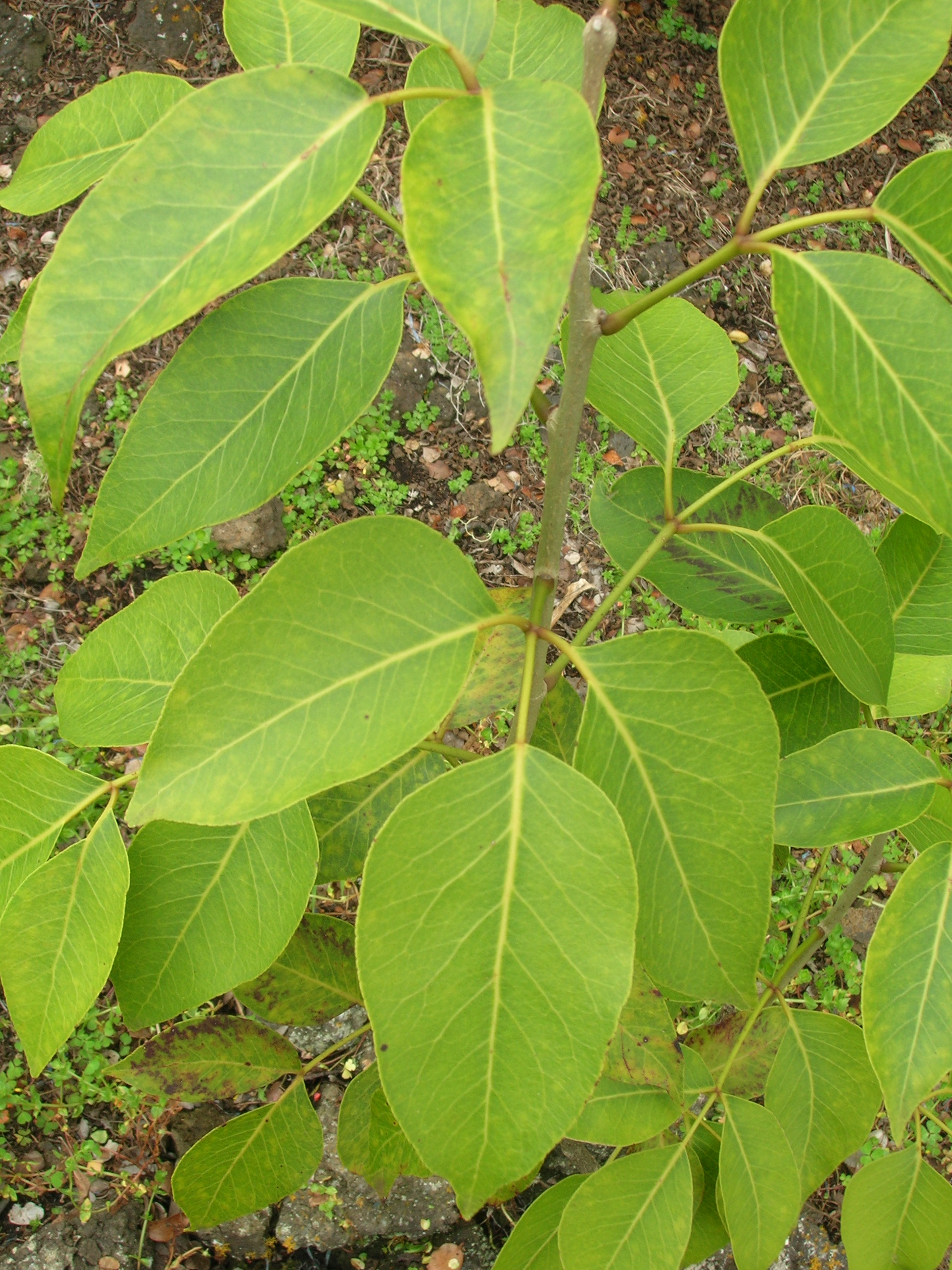 Zanthoxylum hawaiiense (sapling). Location: Maui, Auwahi